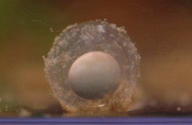 3-day-old Neurergus kaiseri egg. Picture taken in captivity, in France.